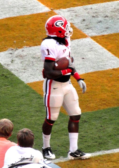 Georgia Bulldogs Running back Isaiah Crowell during pre-game warm-ups at Neyland Stadium in Knoxville, Tennessee.